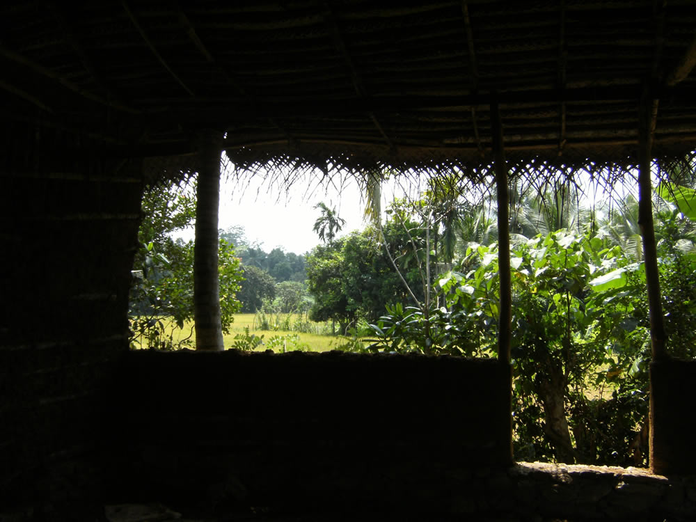 කොරතොට අංගංමඩුව